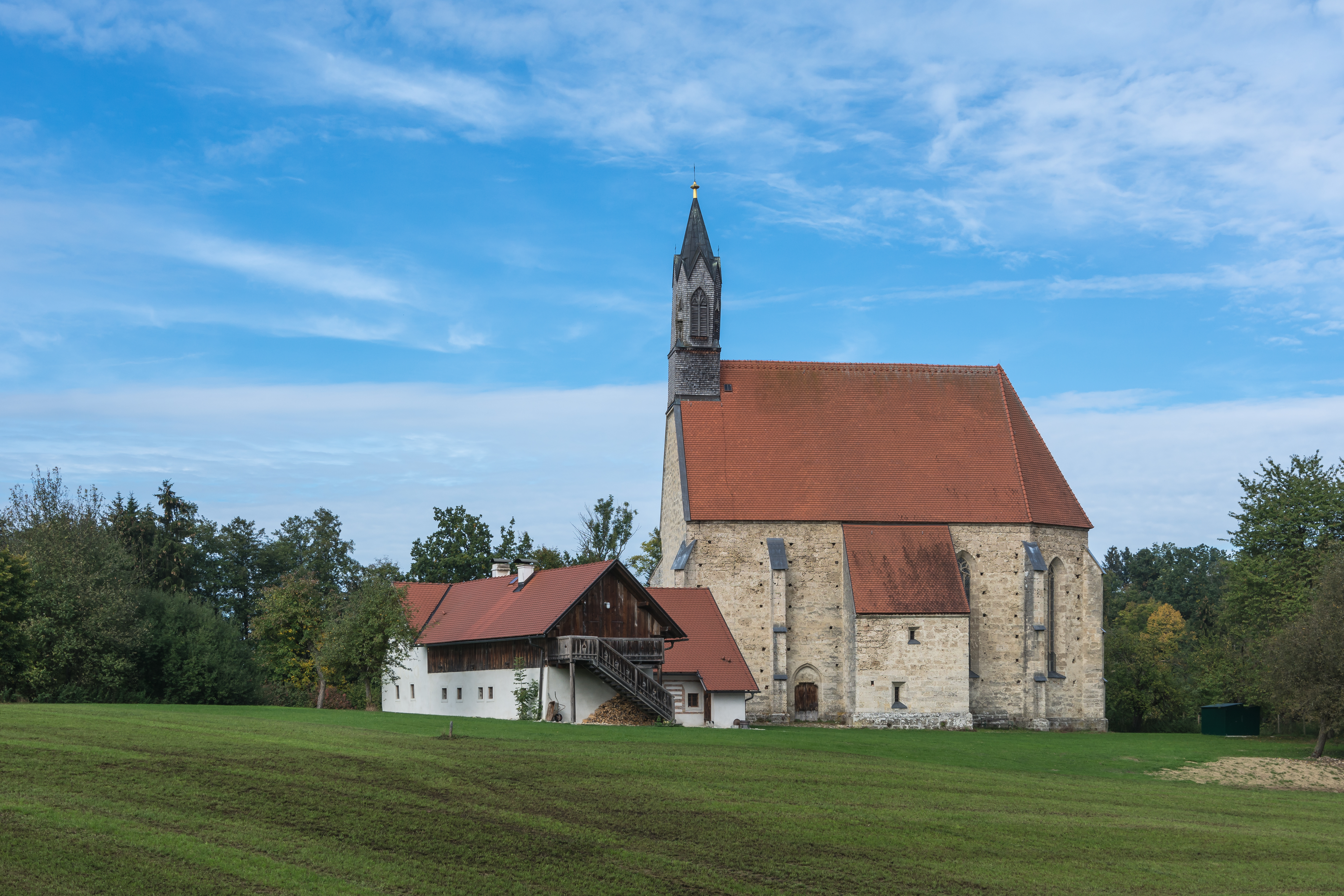 The pilgrimage church of St. Blasien, municipality Adlwang, is a gothic hall church. It has a one nave longhouse with 2½ bays, a ribbed vault and a polygonal apse. The windows are with open tracery. The portals in south and west are of neo-gothic origin. The belfry is a wooden flèche. The knights of Rohr let erect this church in 1348. The interior was made around 1700. The remarkable high altar was created in 1715 by the sculptor of the monastery Kremsmünster. The altarpiece shows St. Blaise according to his legend with the wife whose pig he had saved. The paintings of the church were made by a local painter. Remarkable is also the ornamental iron reinforcement of the door from the nave to the sacristy.